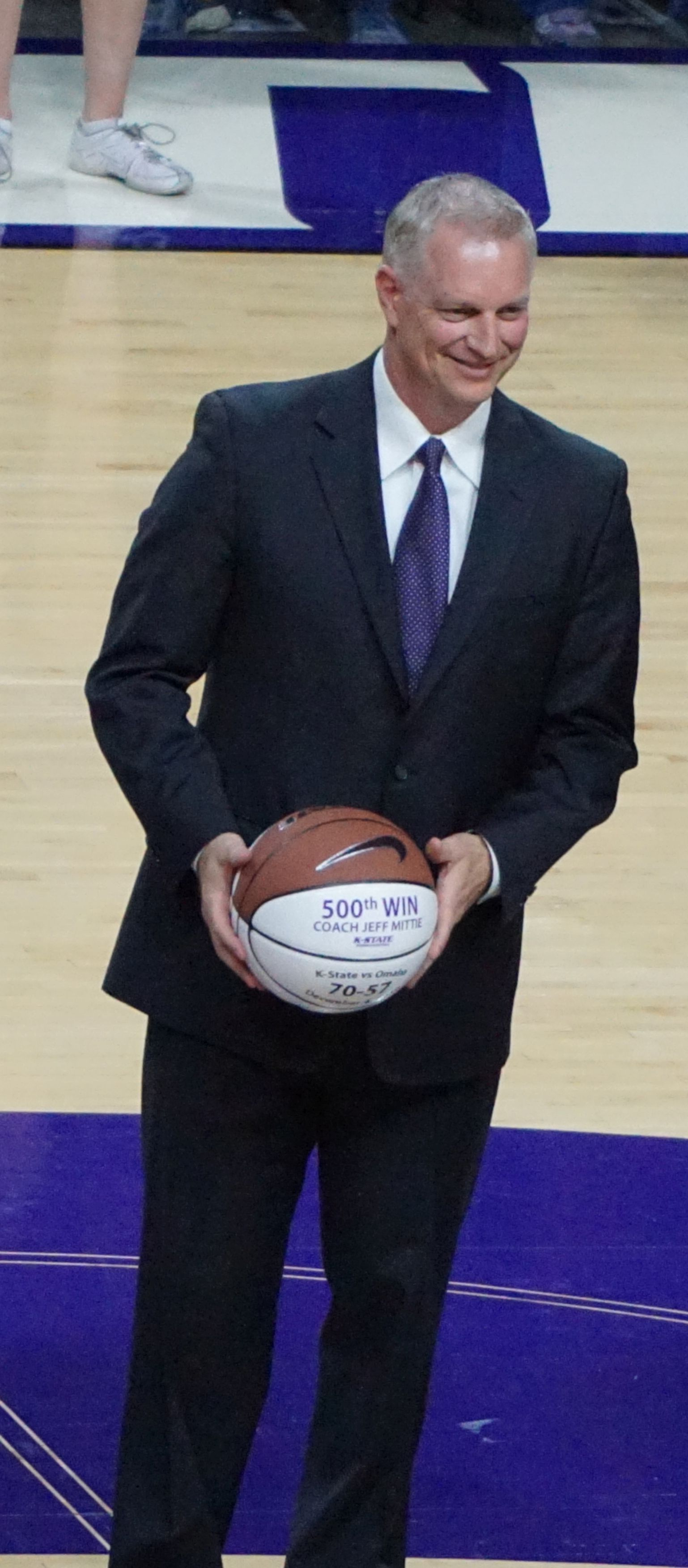 Jeff Mittie, head coach of the Kansas State women's basketball team, prior to the game between KSU and UConn, being presented with a commemorative ball to celebrate the 500th win of his career